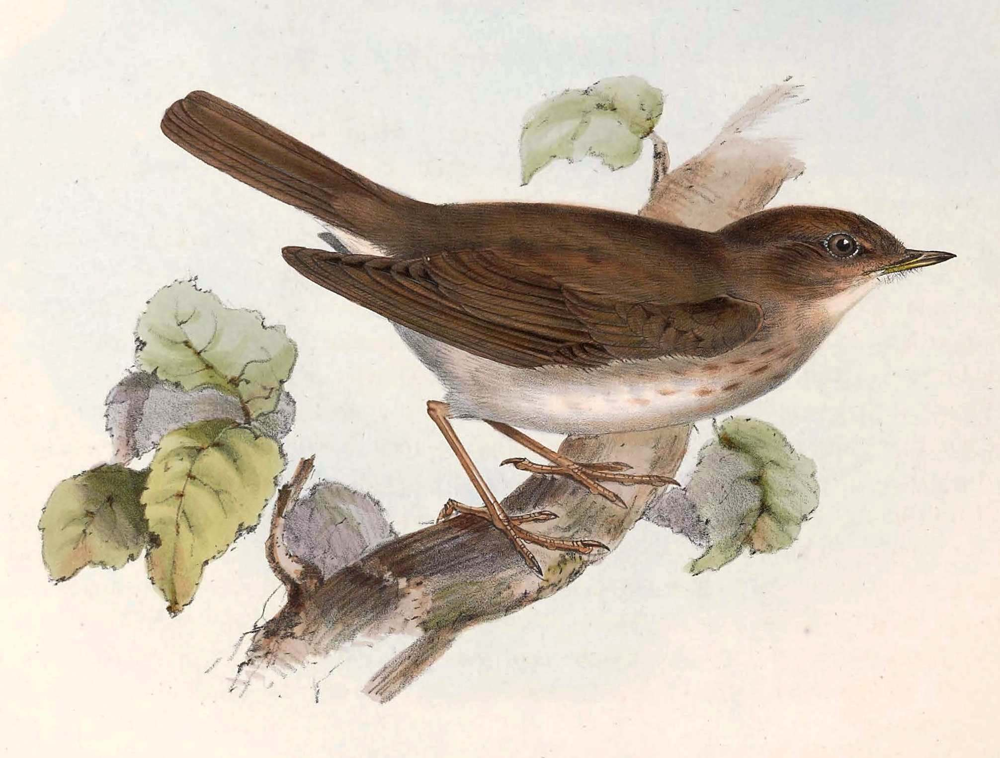 Luscinia luscinia Gould Europe